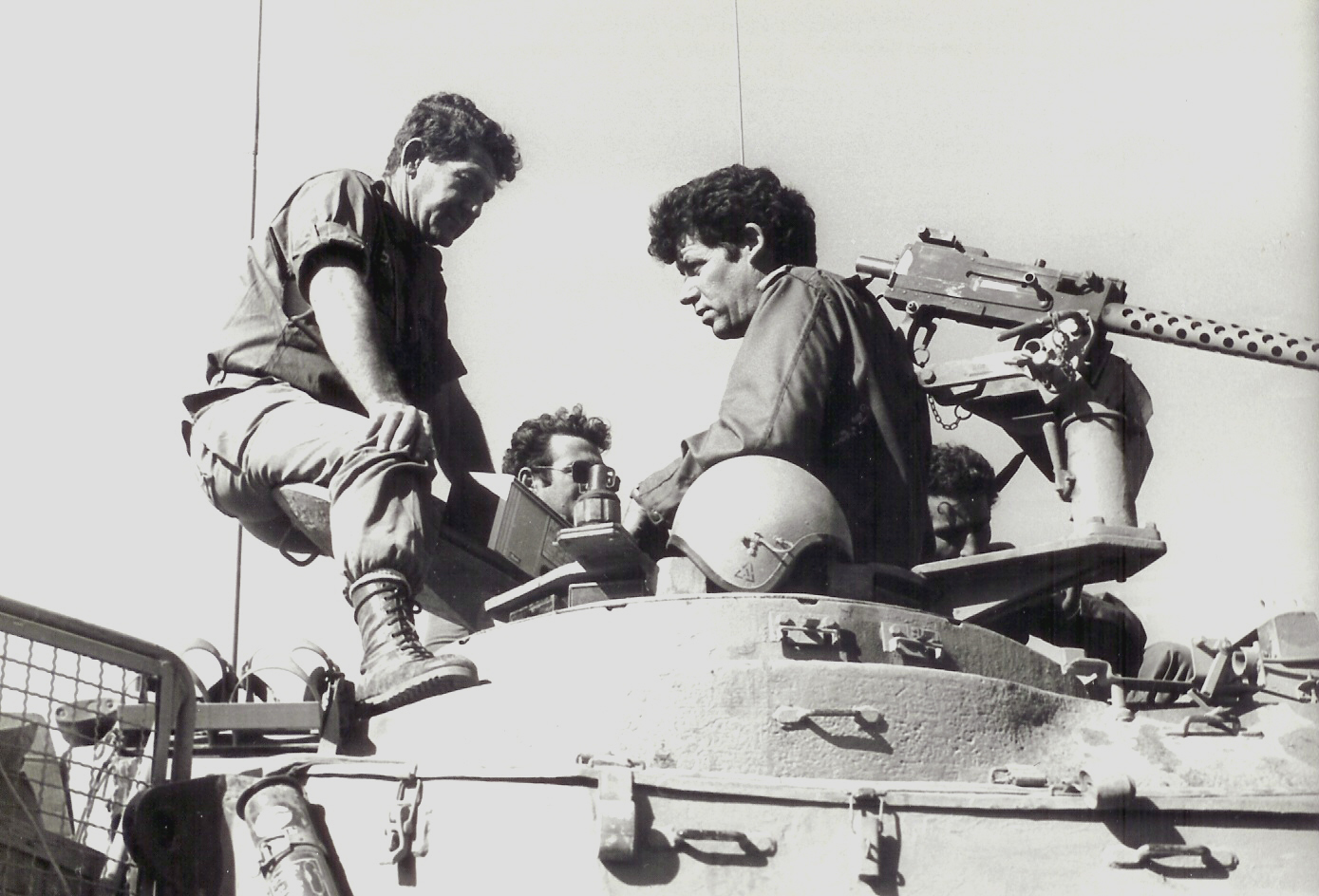 Uri Or and Levi Mann